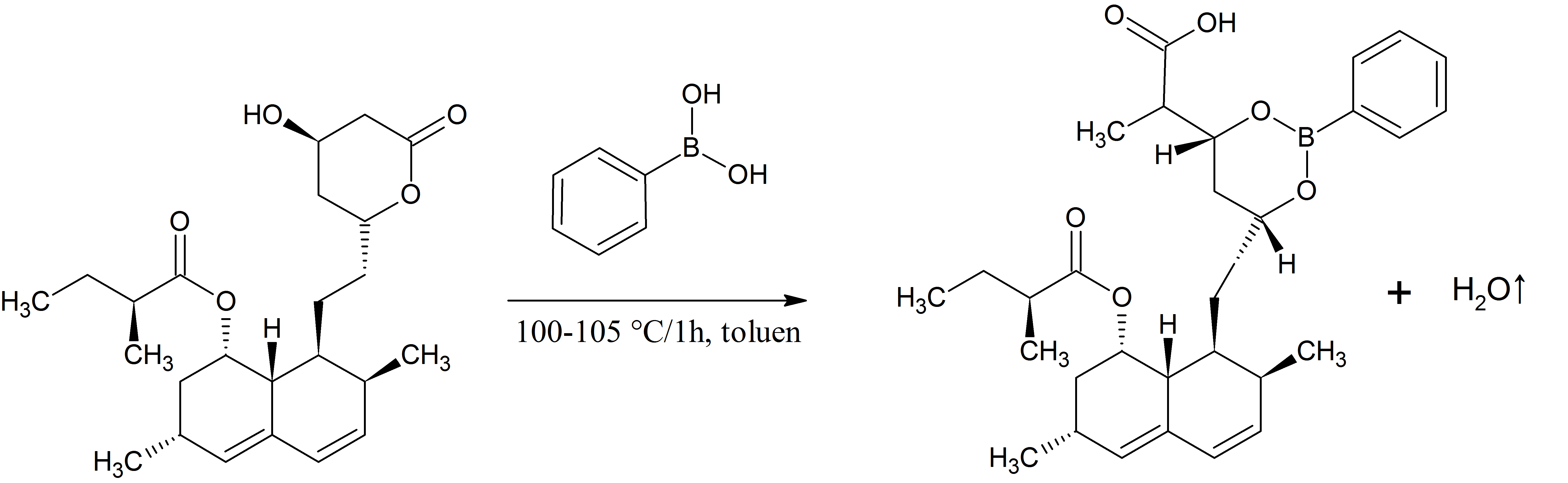 Route to manufacturing simvastatin by direct methylation of lovastatin based on Process for producing simvastatin